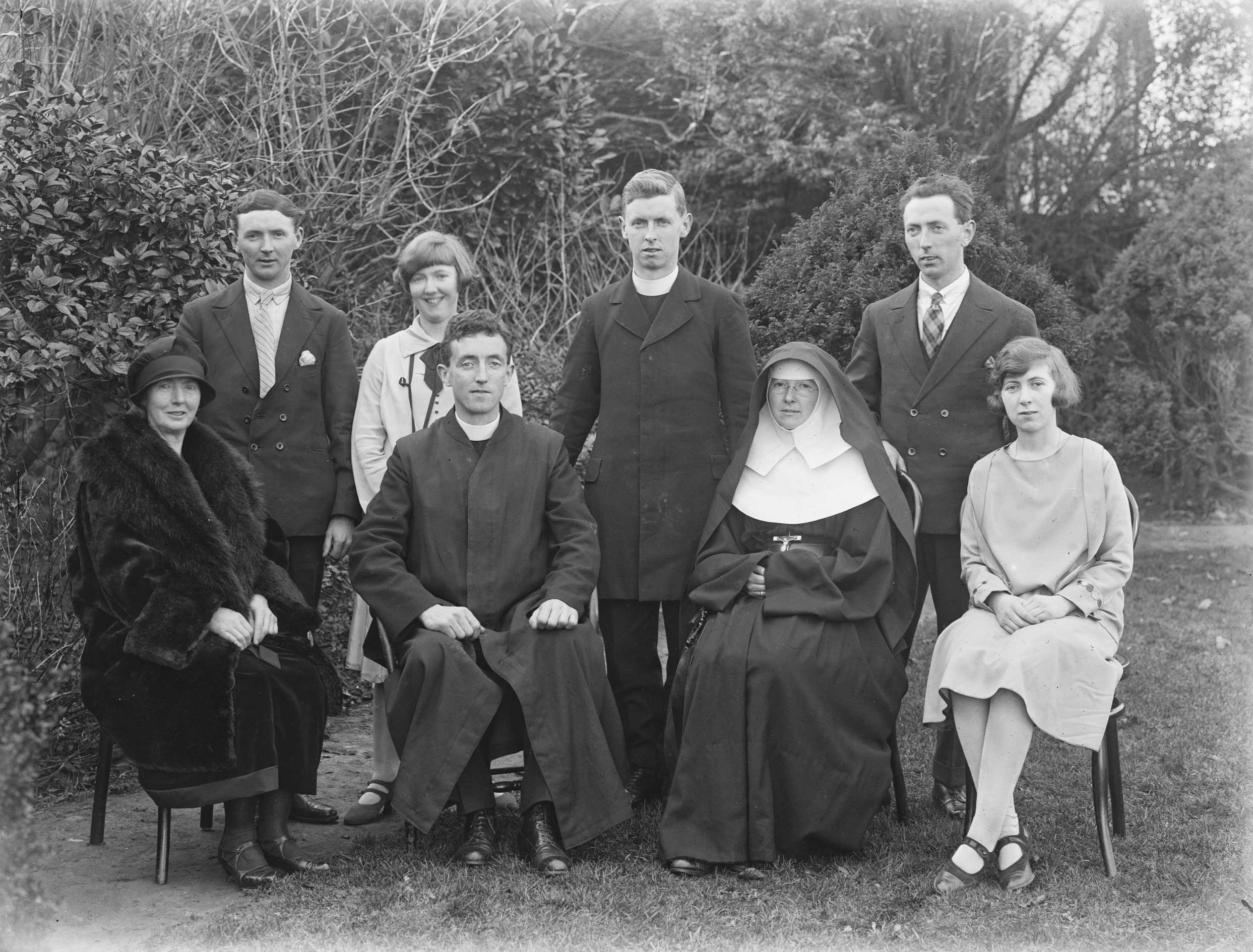 This is recorded as an ordination group for Mrs Burke (seated in the fur coat?). Would imagine that the young priest seated in the one who's just been ordained. Family resemblances are strong here, and if they're all from one family, then that means the Burkes produced two priests and one nun - a coup for any family at that time. Date: 8 December 1926 NLI Ref.: P_WP_3412